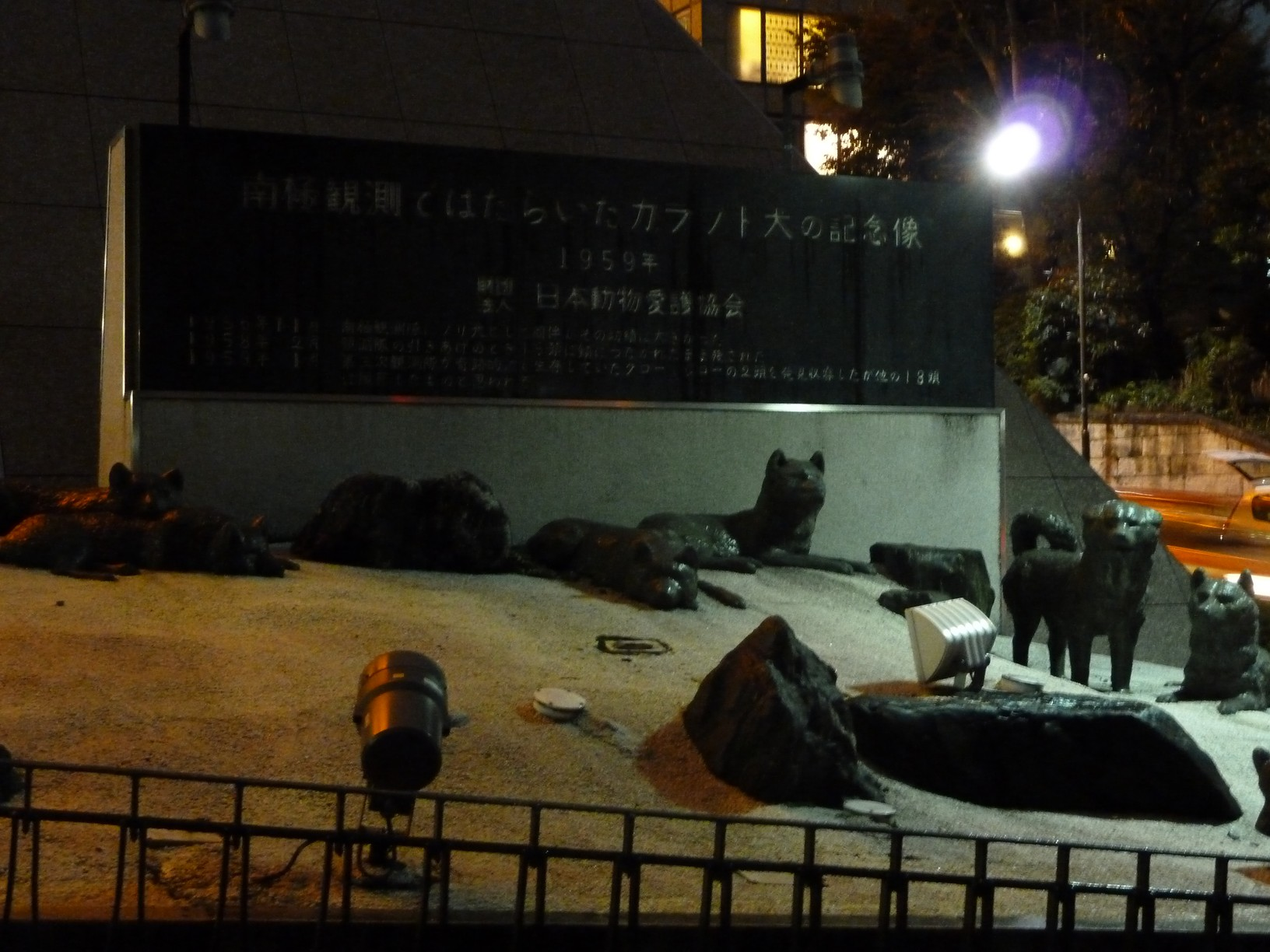 13 karafuto ken